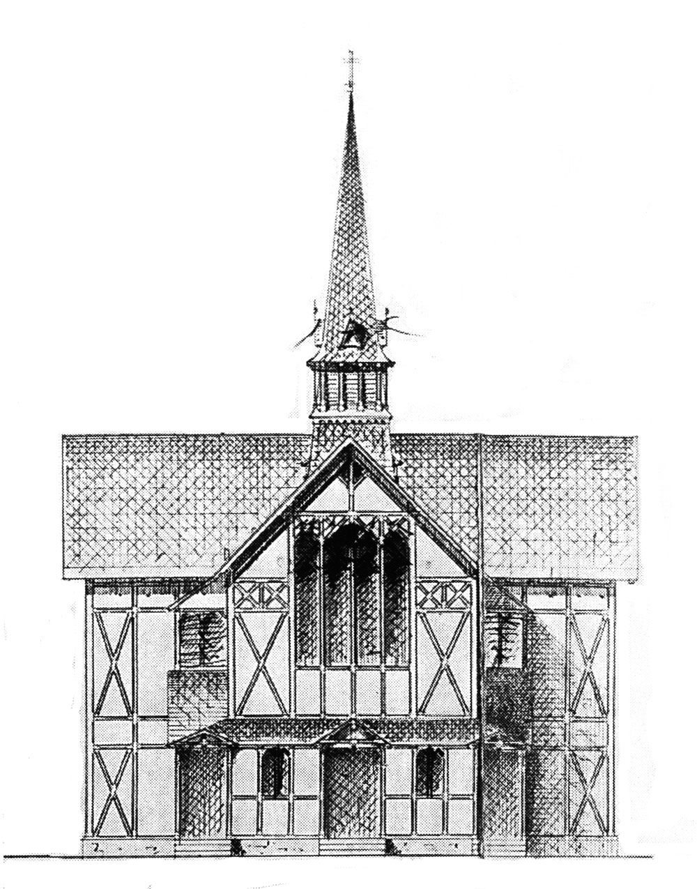 Anger-Crottendorf Interim Trinity Church in Leipzig, Karl-Krause-Strasse (Operation Design by Paul Lange), built in 1891, destroyed in 1943